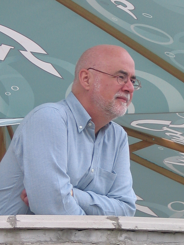 Scottish writer Christopher Whyte at translators' workshop in Piran, Slovenia